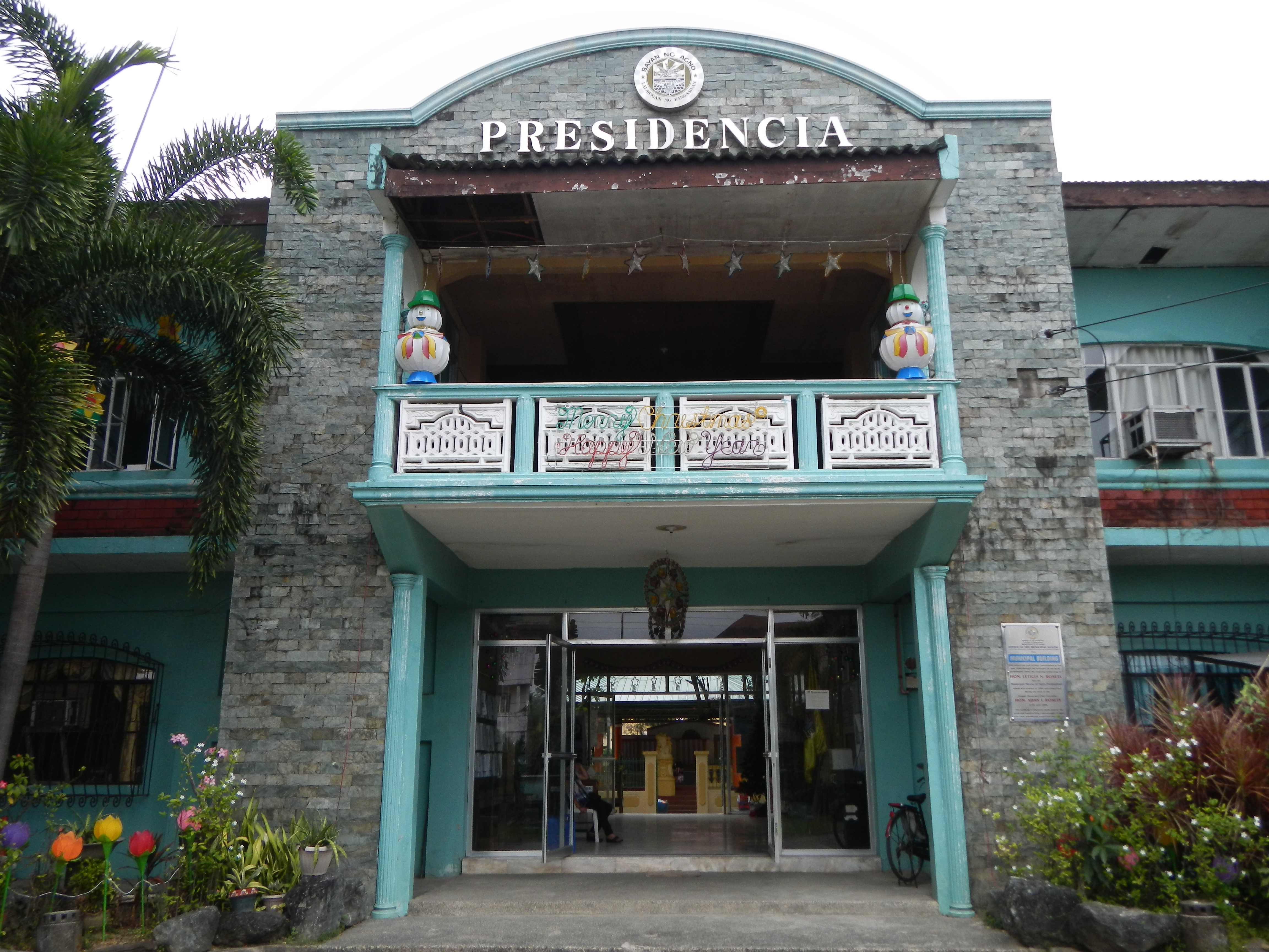 Upload Wizard photos of -- (general description of landmarks, town, Church, going to dark, sunset conditions) - Agno, Pangasinan[1] - the Presidencia Agno Pangasinan Town Hall Complex Compound and the Official Flag Seal from the Town Hall ground floor.